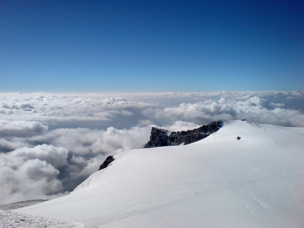 Breithorn plateau and Gobba di Rolin from about 4,000 metres.